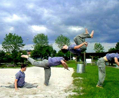 Me doing a backflip, landing into a split.